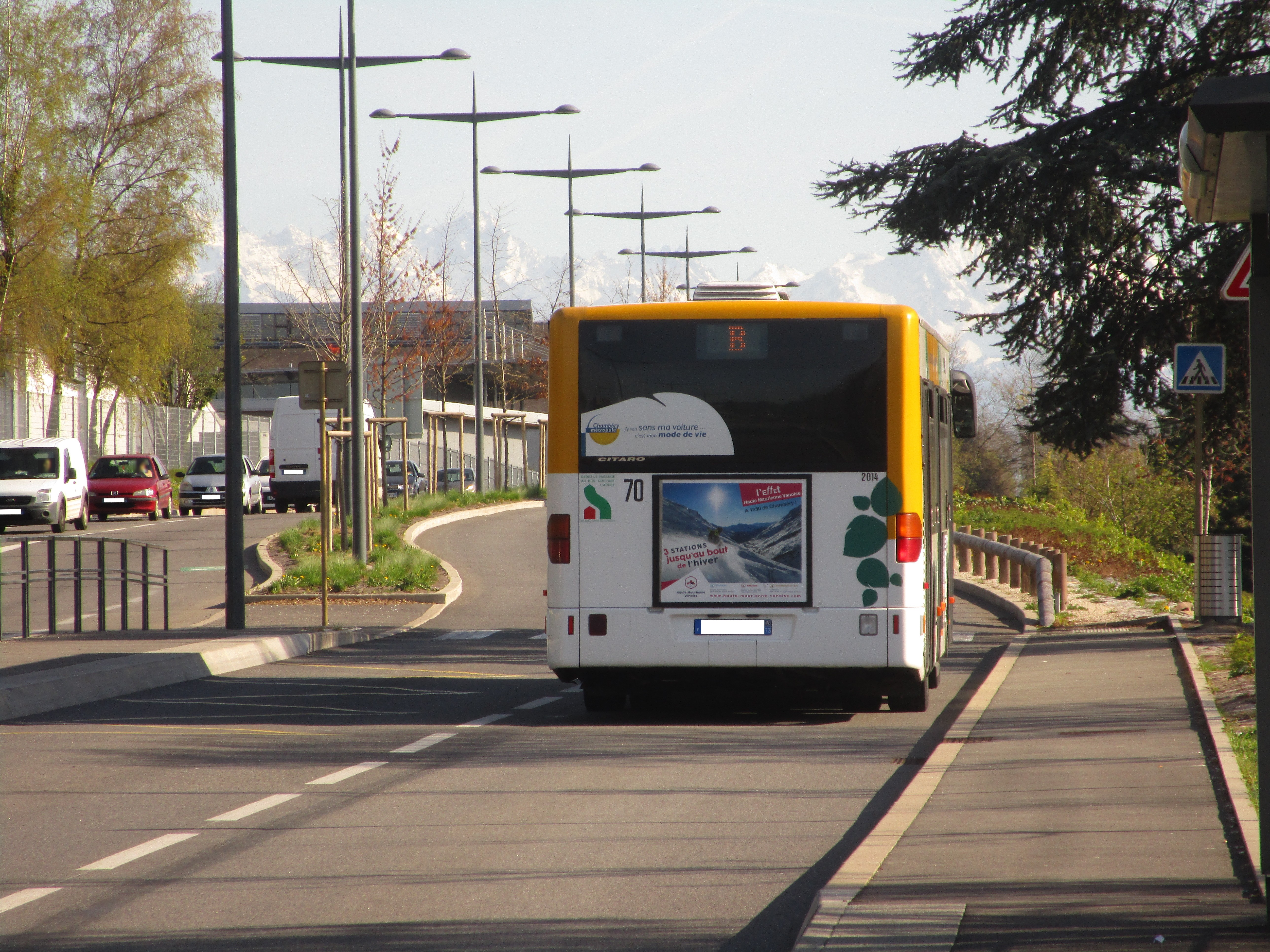 The Mercedes-Benz Citaro G Facelift n°2014 of the Stac, on the line Chrono B (Parc Relais Maison Brulée, Chambéry↔Roc Noir, Barby), in Chambéry on March 30, 2017.